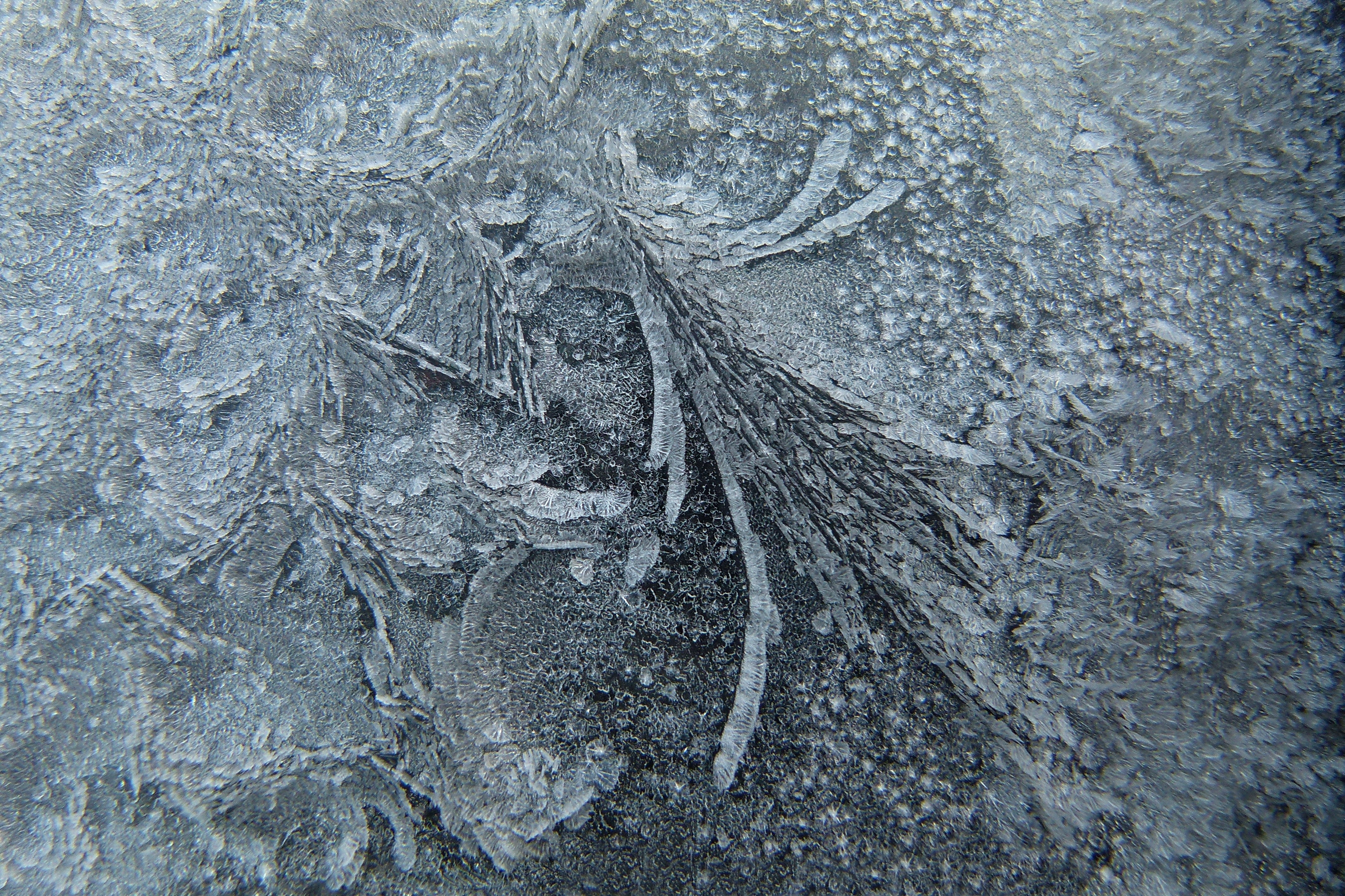 Ice-ferns